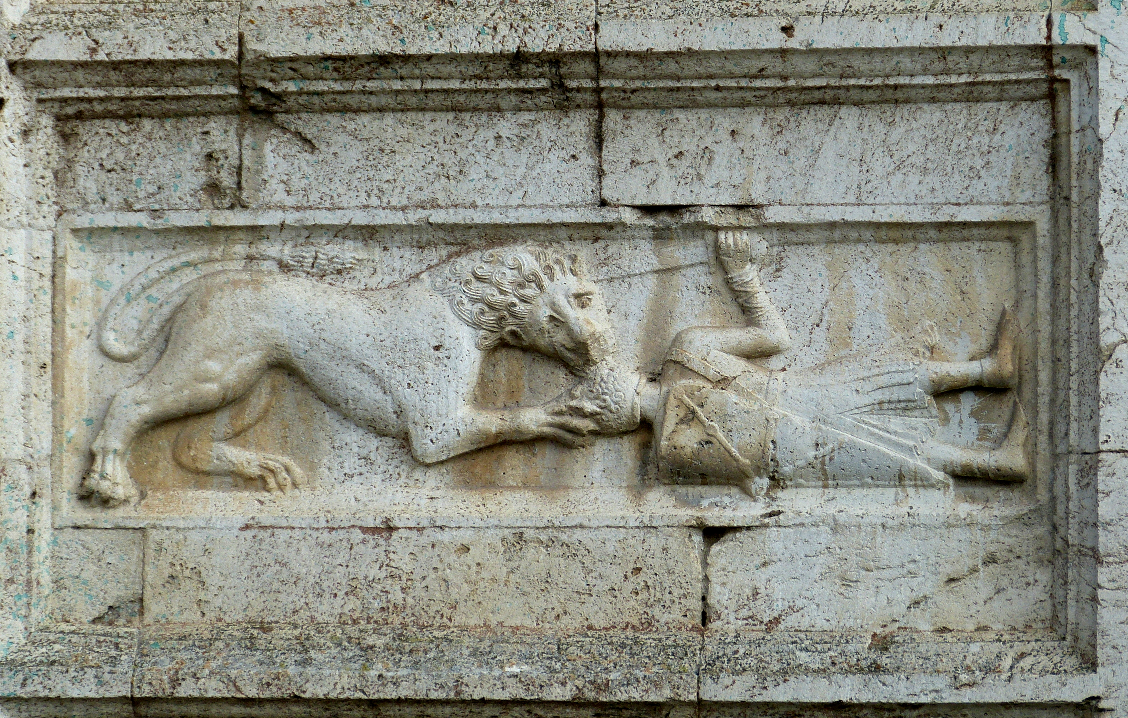 Spoleto ( Umbria ). San Pietro fuori le mura: Romanesque main portal ( 1200s ) - Reliefs at the left: A lion kills a soldier ( Allegory of the punishment of god against the arrogance of man )